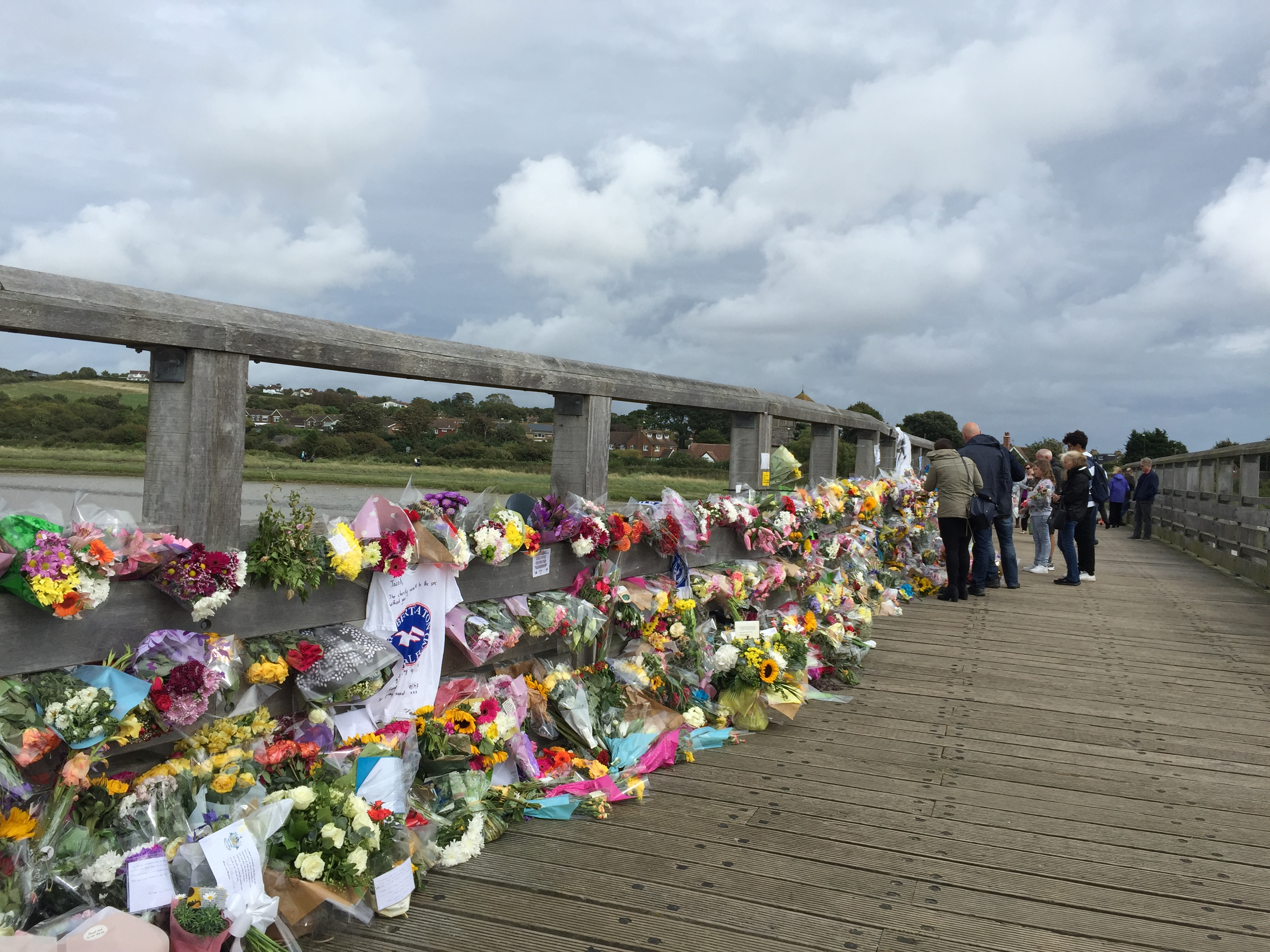 People pay tribute to those who lost their lives in the Shoreham Airshow Crash.